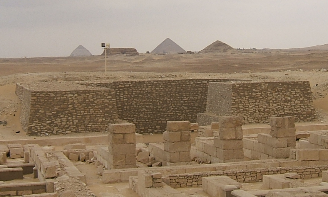 Pyramid of Queen Anchenespepi II